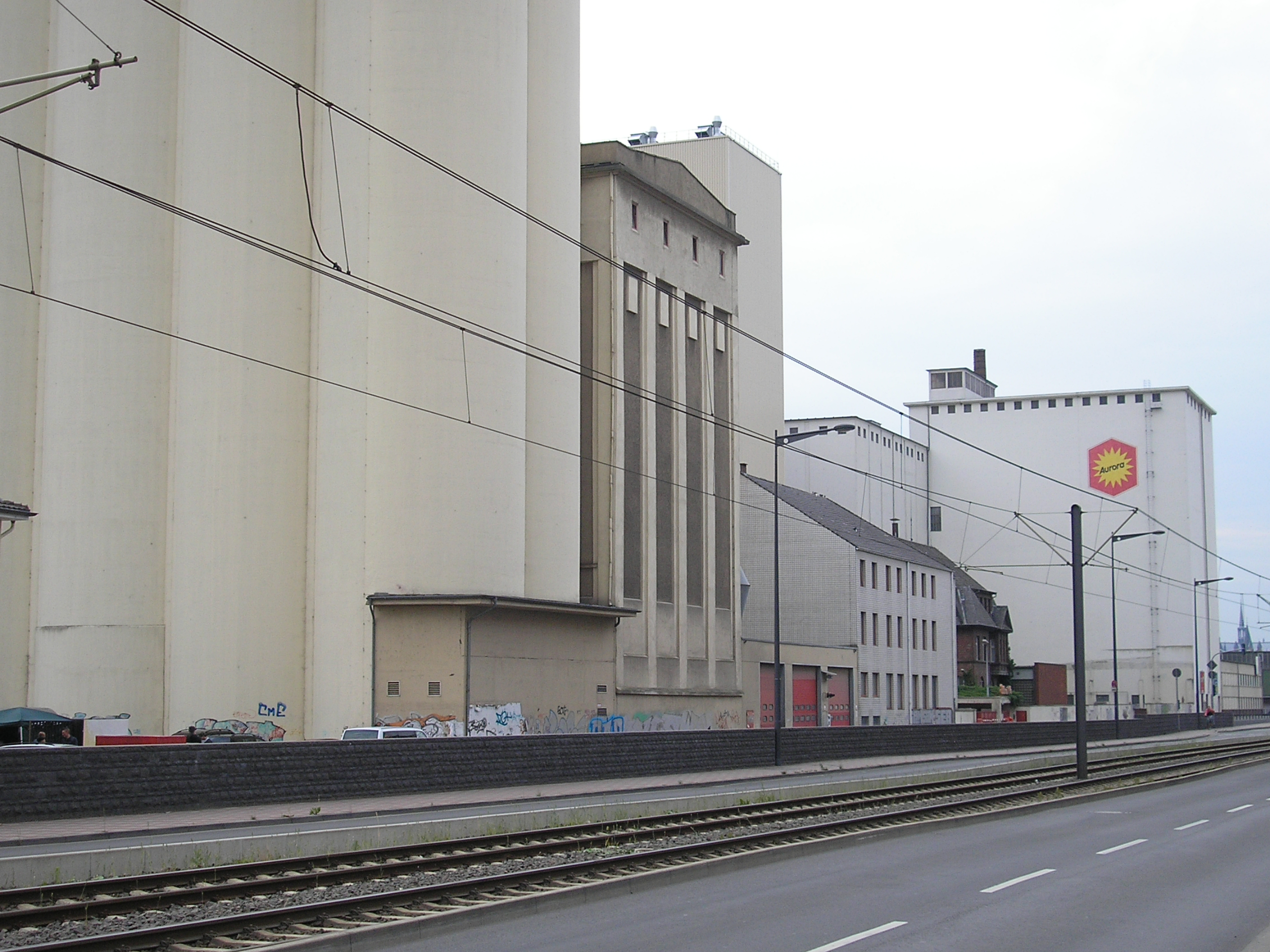 Ellmühle ( Mill ), Cologne-Deutz